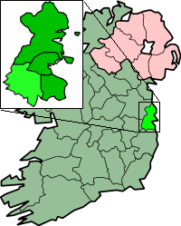 South Dublin map into Ireland